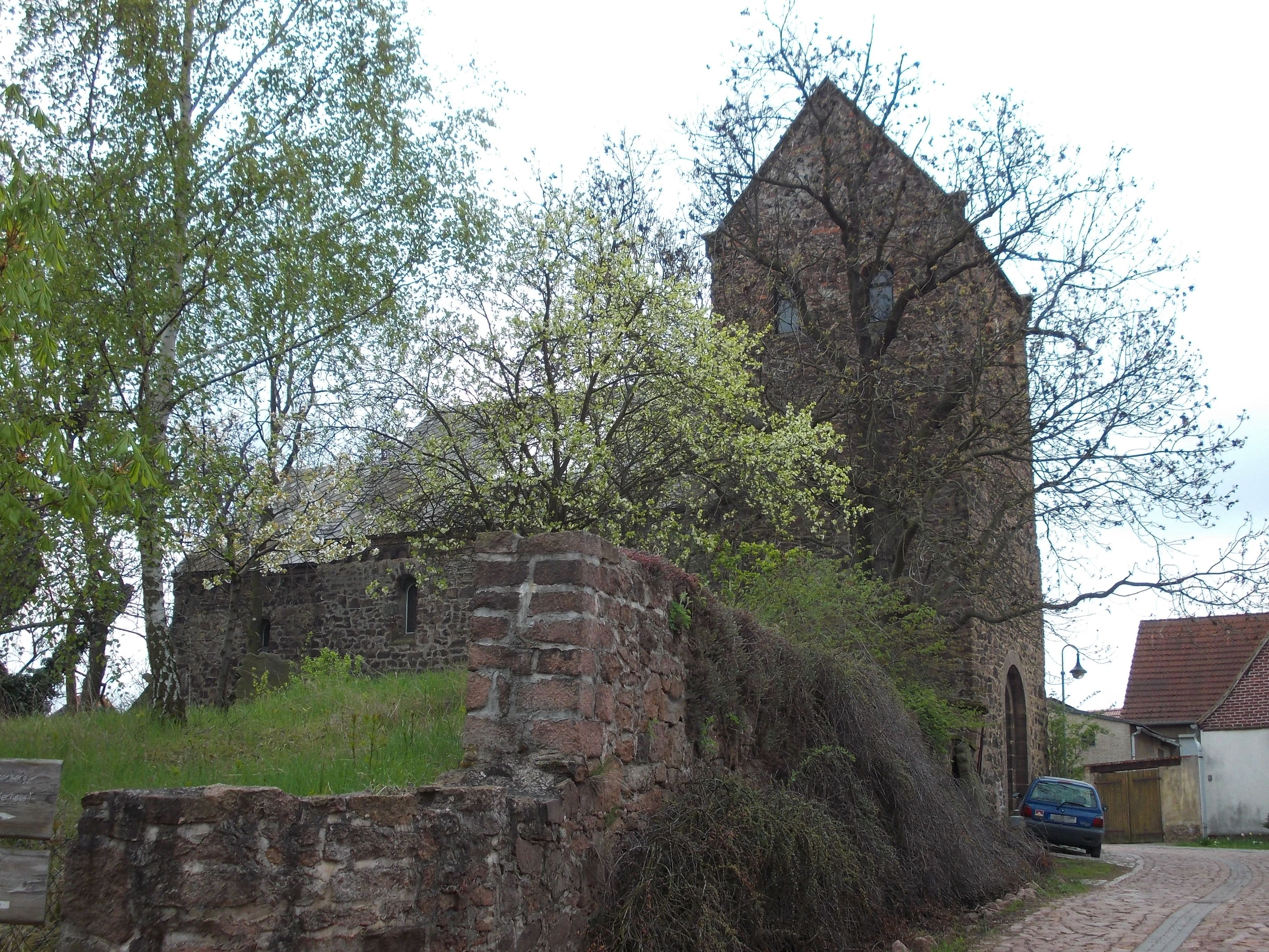 Kaltenmark church (Petersberg/Saalekreis, Saxony-Anhalt)